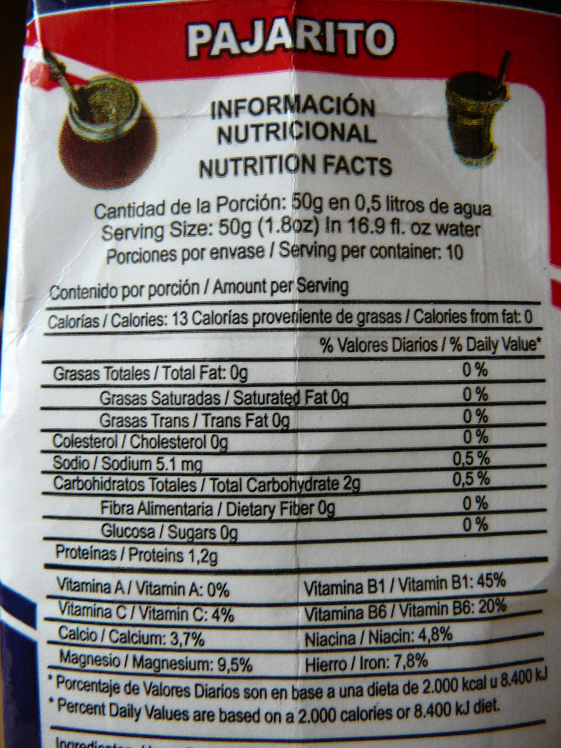 Nutrition facts yerba mate Pajarito Selección Especial